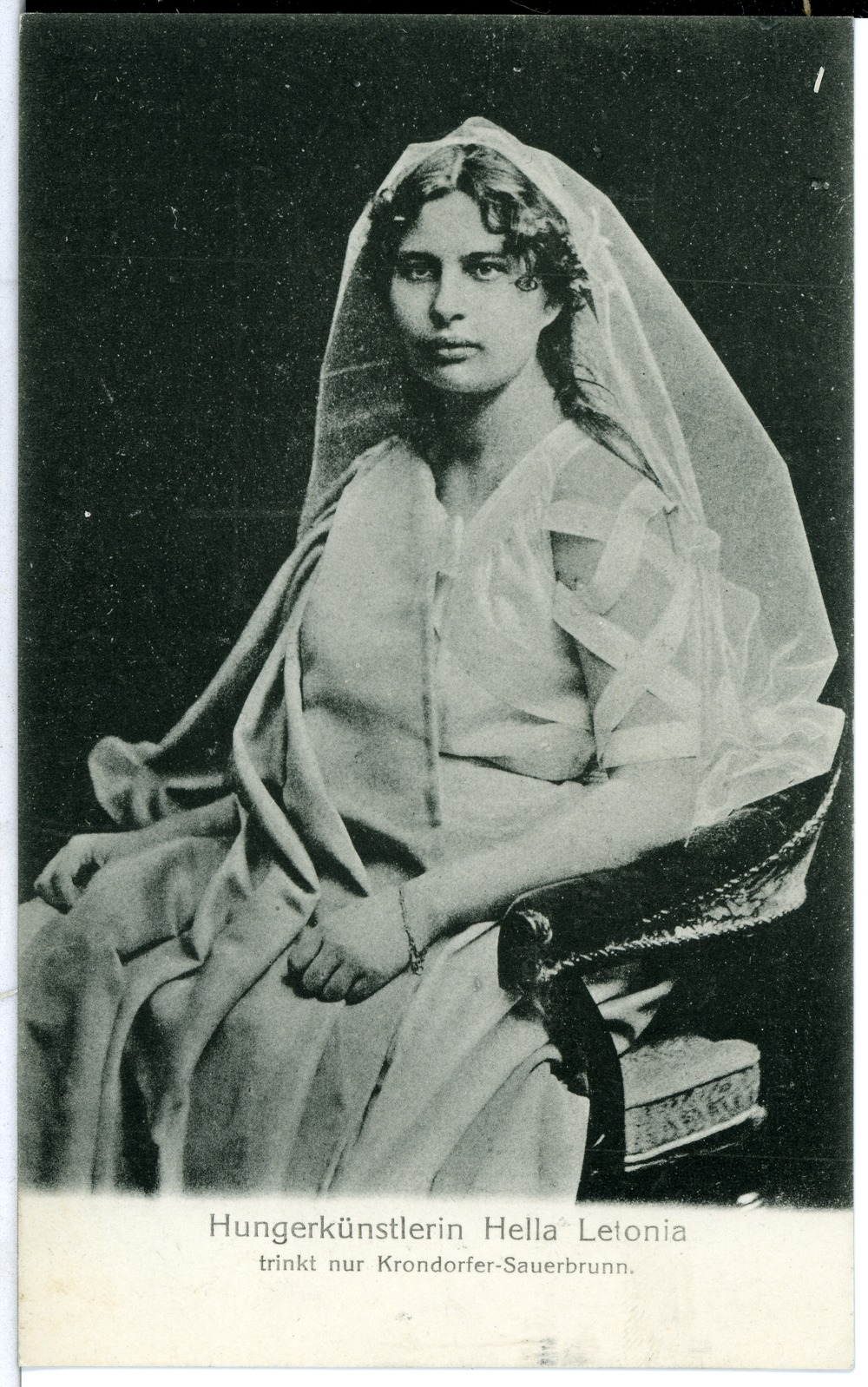 This postcard is from publisher Brück & Sohn in Meißen ( This postcard has a unique number 11022 and is available in a higher resolution at the publisher. This images was uploaded in a cooperation project between Wikipedians and the publisher.